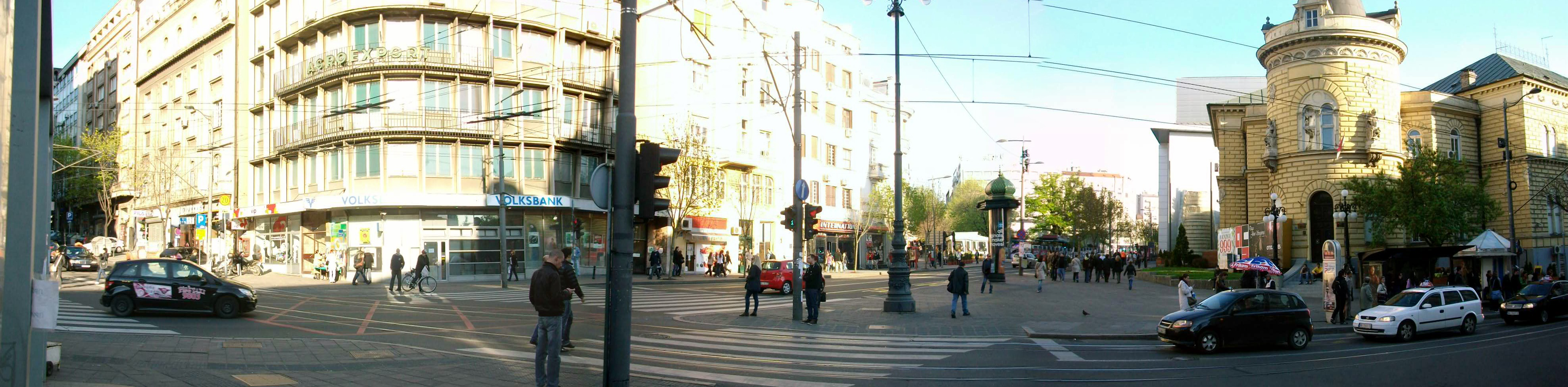 Panoramic view of Flower Square